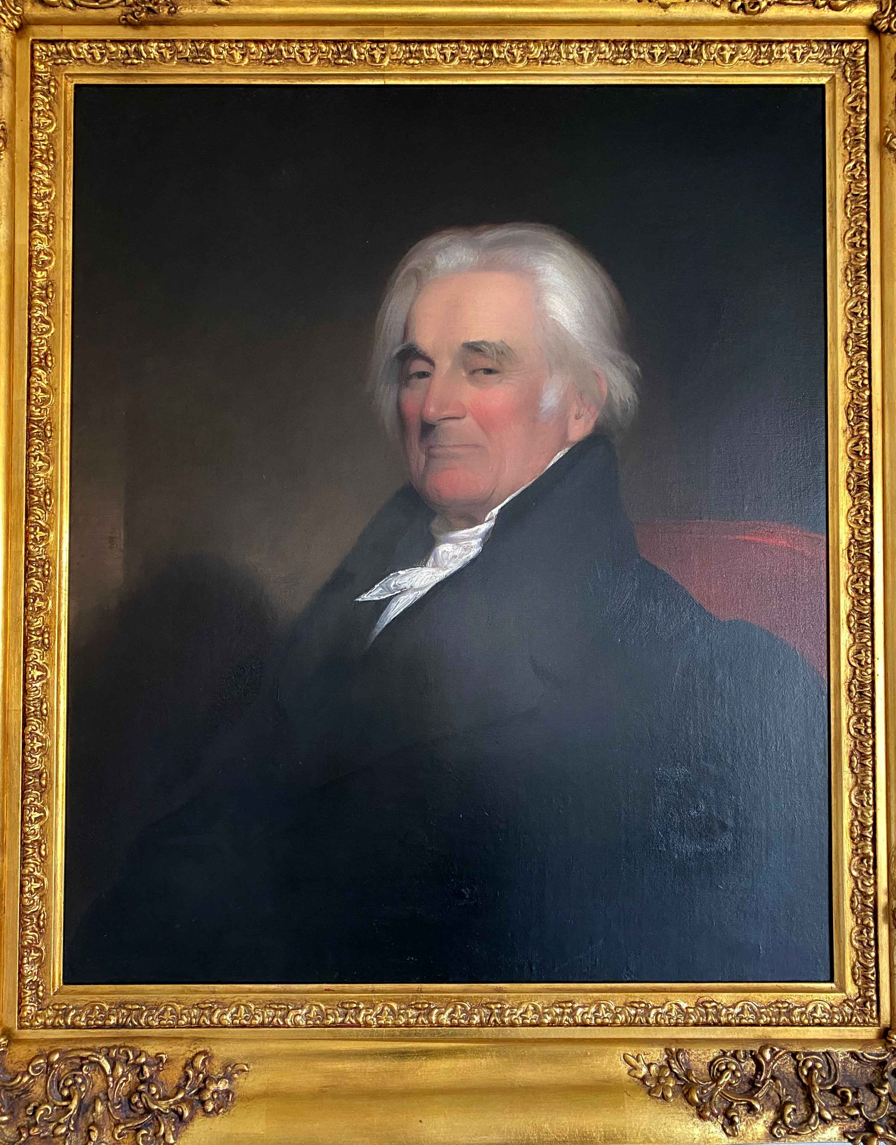 William Steuart, 18th Century Maryland planter